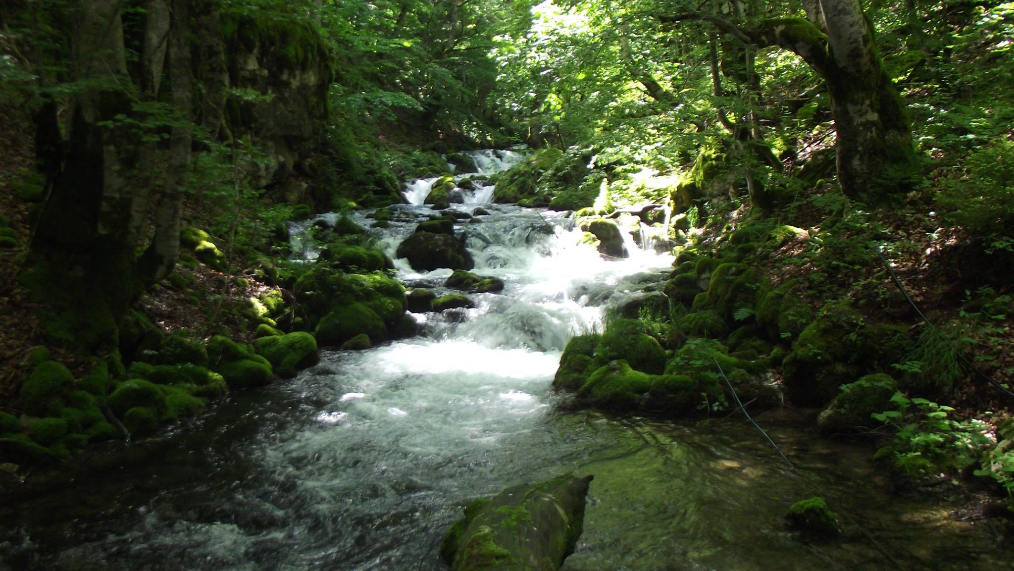 Ljestanica river is a unique place in Lijeska Montenegro my home place.